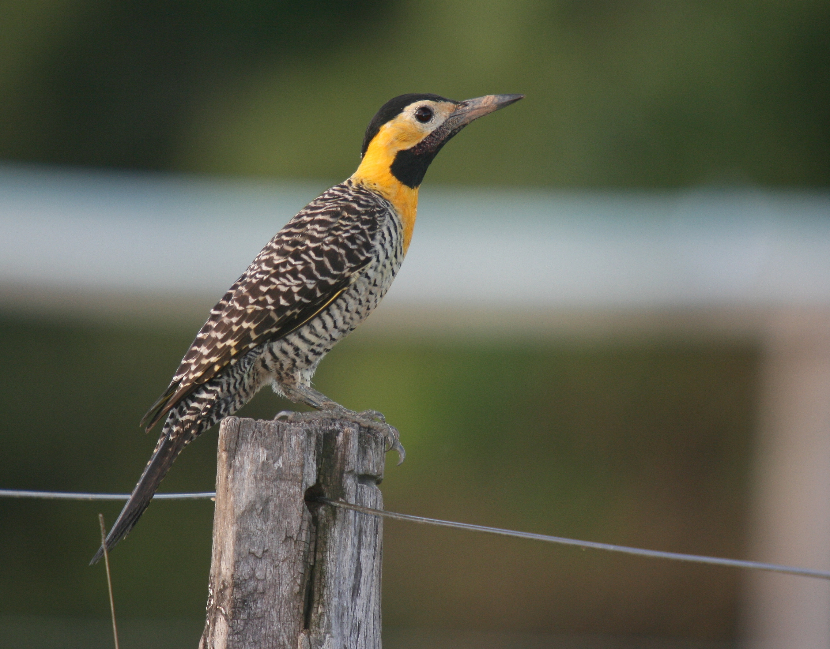 A Campo Flicker in the cerrado of Goiás, Brazil.